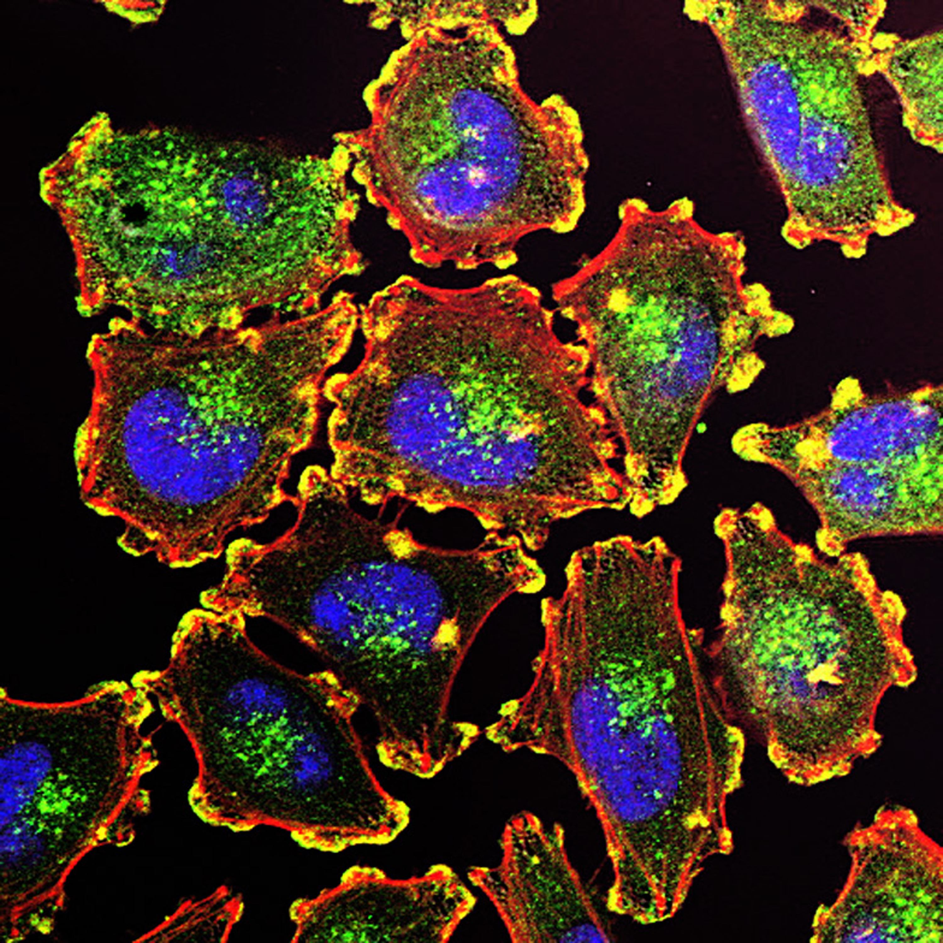 The ability of cancer cells to move and spread depends on actin-rich core structures such as the podosomes (yellow) shown here in melanoma cells. Cell nuclei (blue), actin (red), and an actin regulator (green) are also shown. This image was originally submitted as part of the 2015 NCI Cancer Close Up project and selected for exhibit.